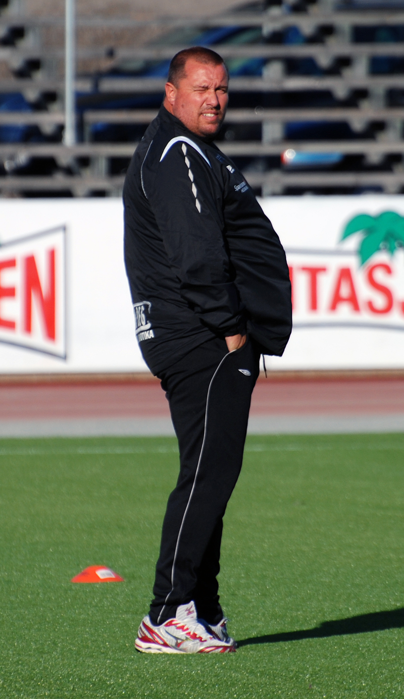 Tom Nordlie, head coach of Kongsvinger.